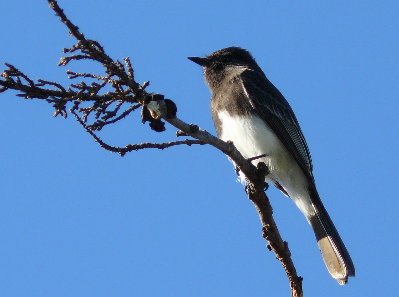 A Black Phoebe at Montaña de Oro State Park, California, USA.